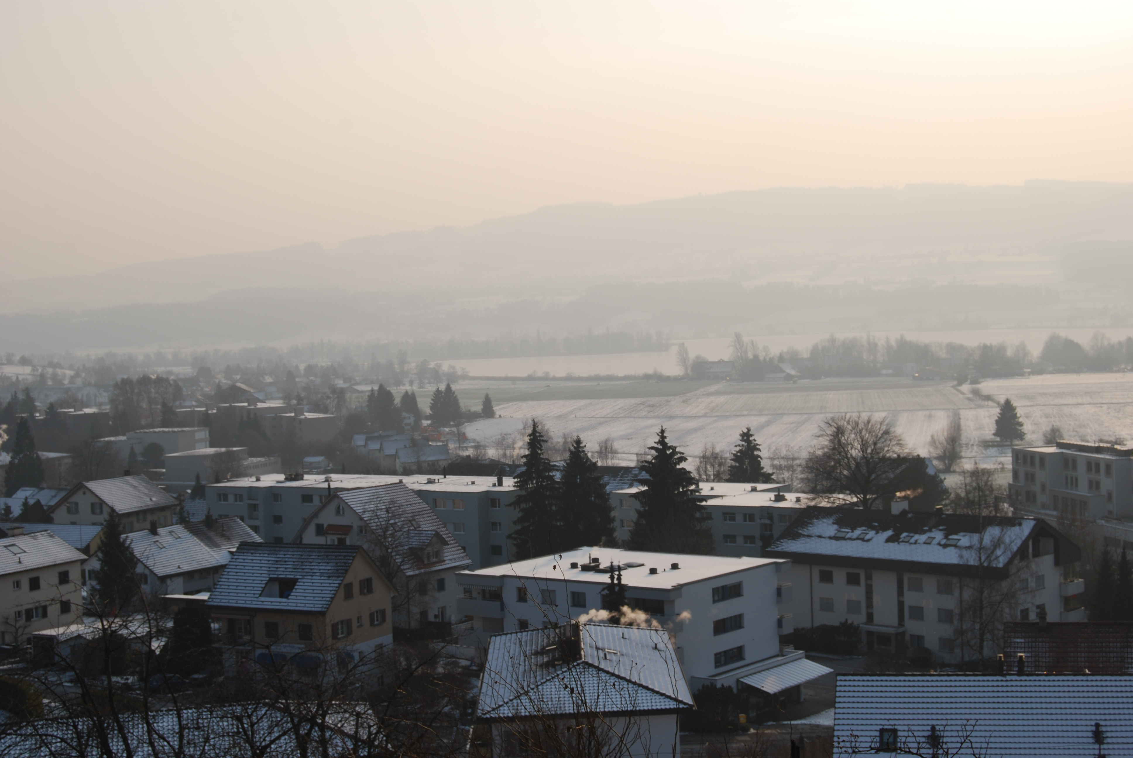 Nossikon with the frozen lake Greifensee, city of Uster, canton of Zürich, Switzerland